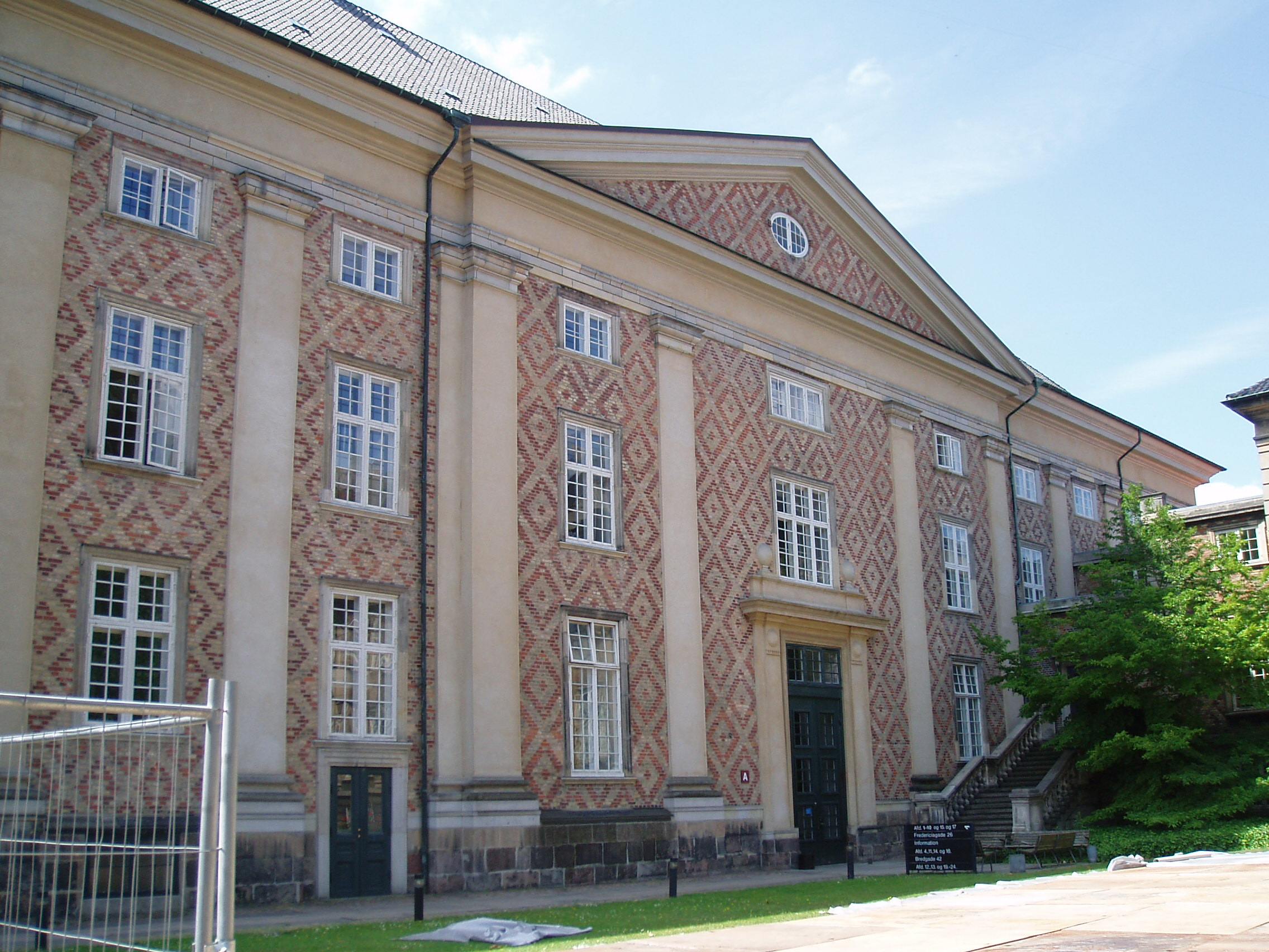 The High Court of Eastern Denmark. Seen from the garden at Bredgade to the facade facing north.